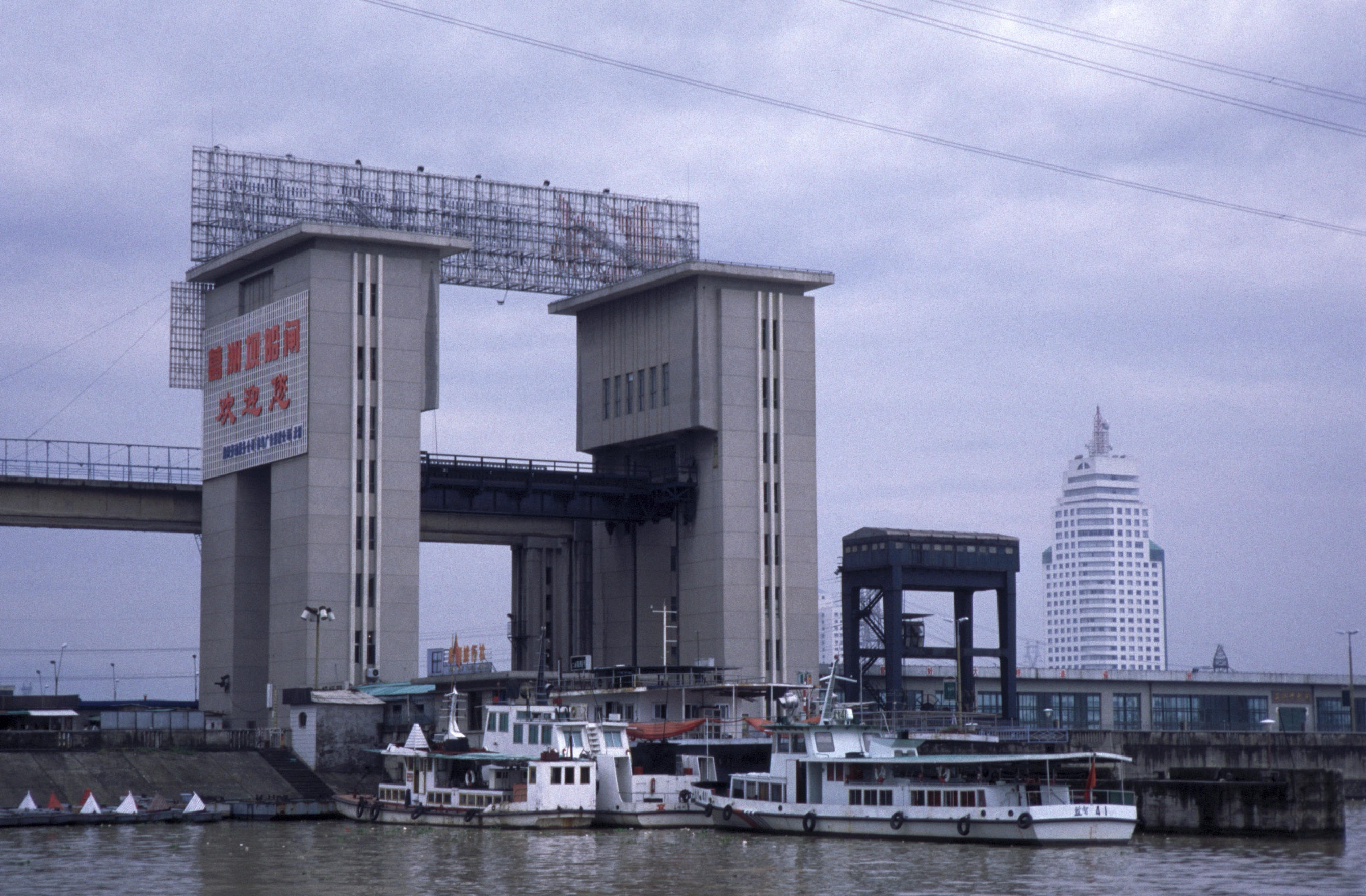 Gezhouba Dam in Yichang in Hubei Province, China